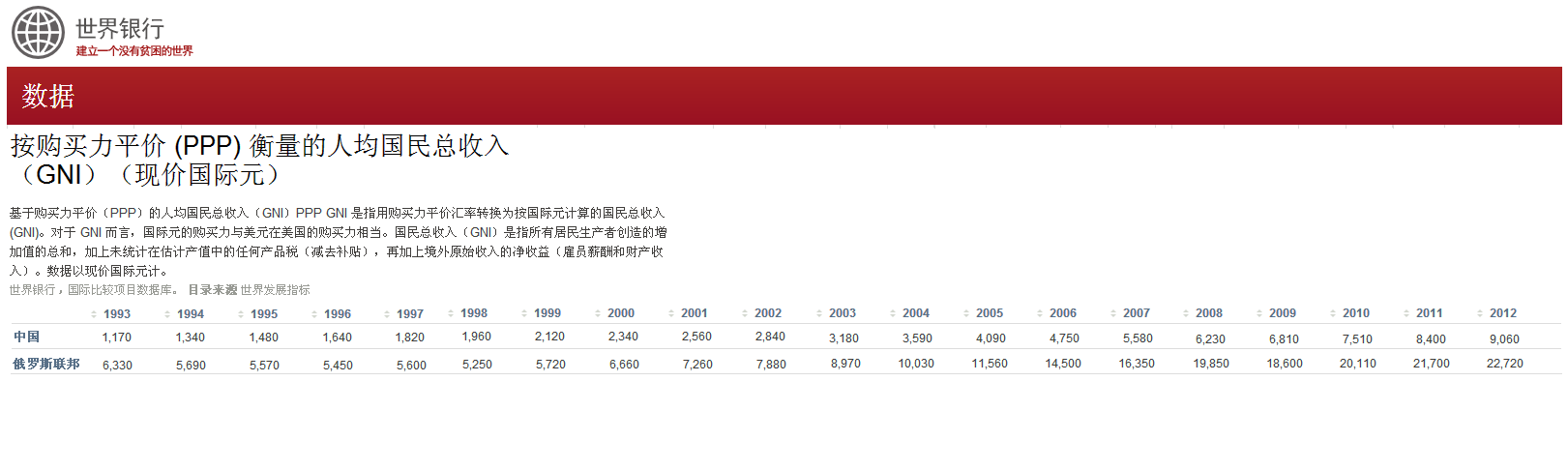 PPP OF RUSSIA